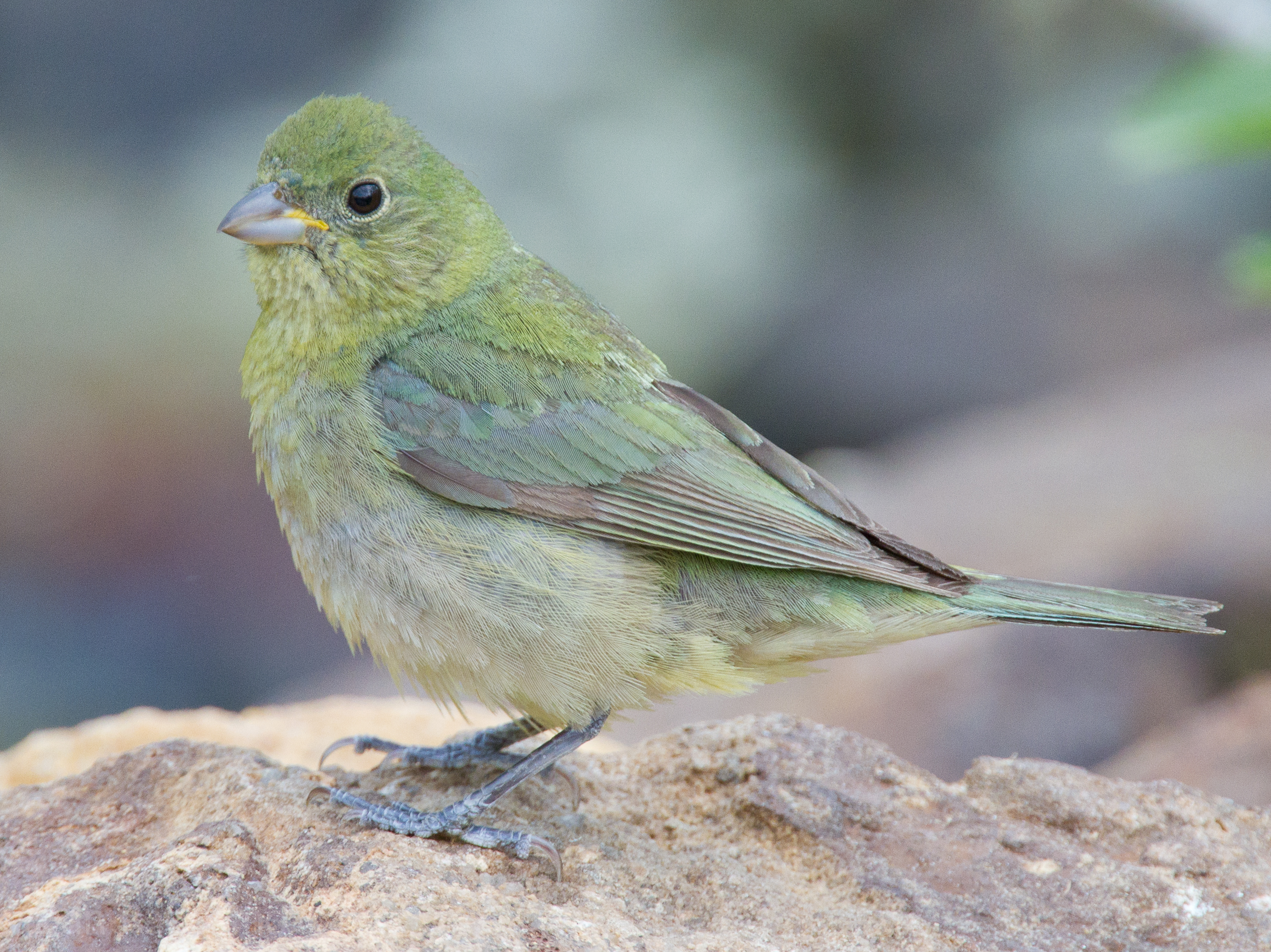 Painted Bunting, Freeport, Texas